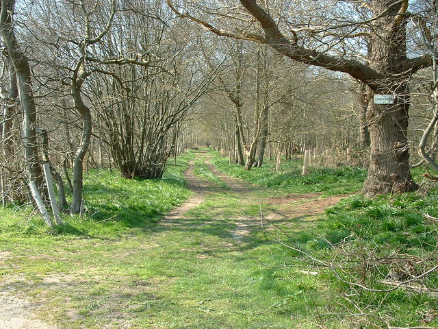 Cutlers Wood Track into Cutlers Wood near to Freston Suffolk.